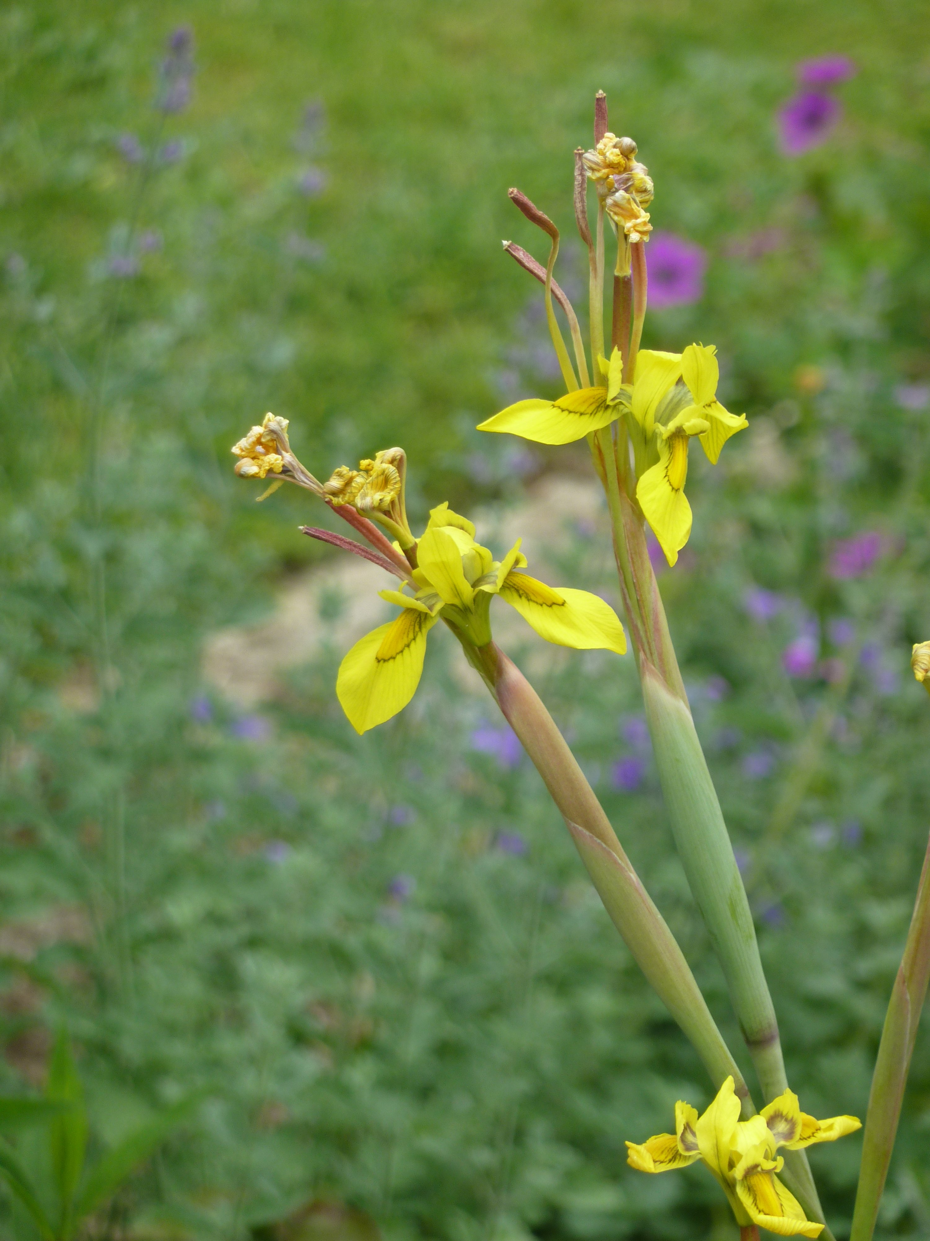 These flowers are at eye level over a very low tussock of strappy leaves.